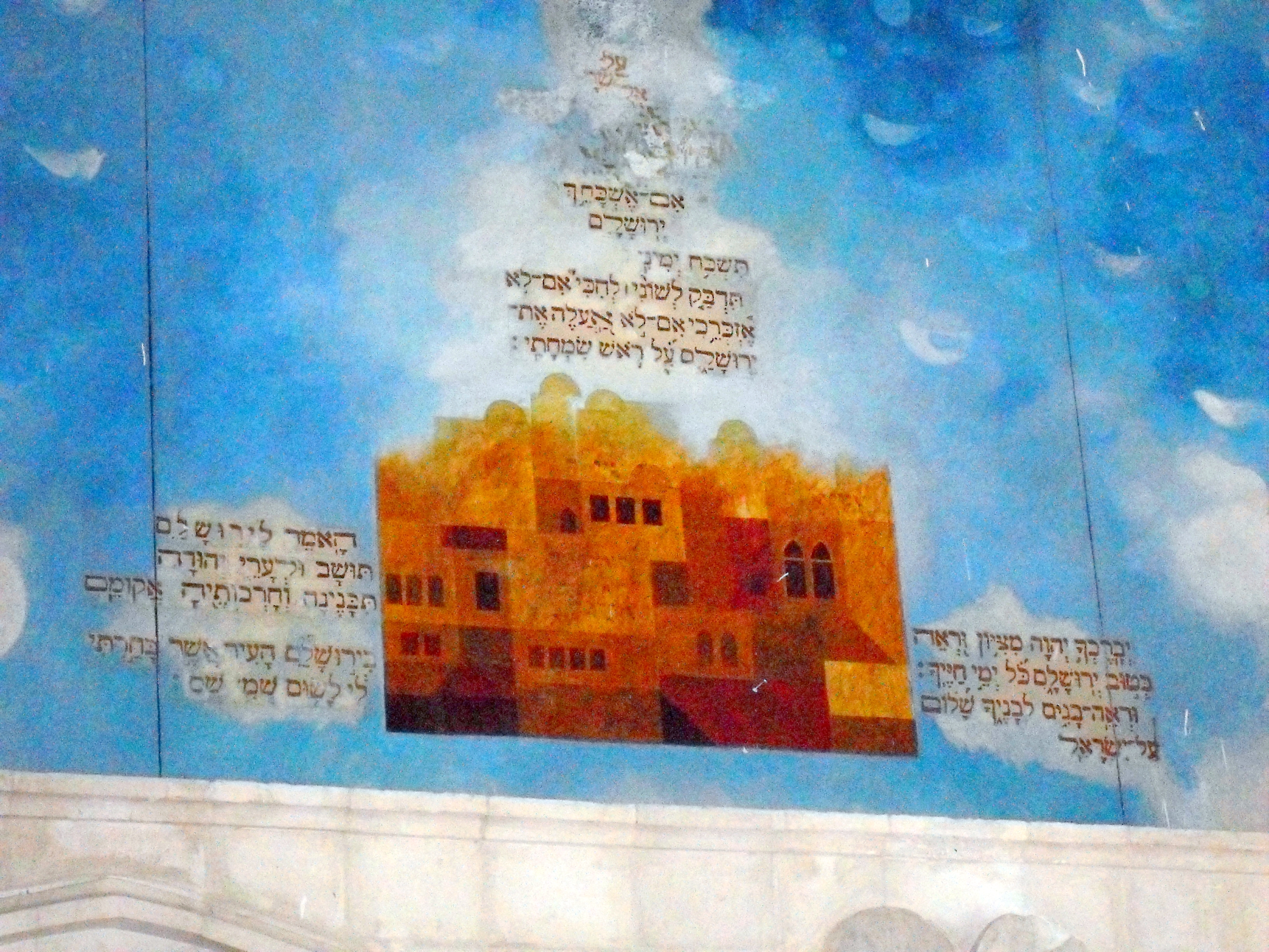 Old Jerusalem Yochanan ben Zakai Synagogue Painting with verses of Psalms 137:5-6 and 128:5-6, Isaiah 44:26 and 1 Kings 11:36